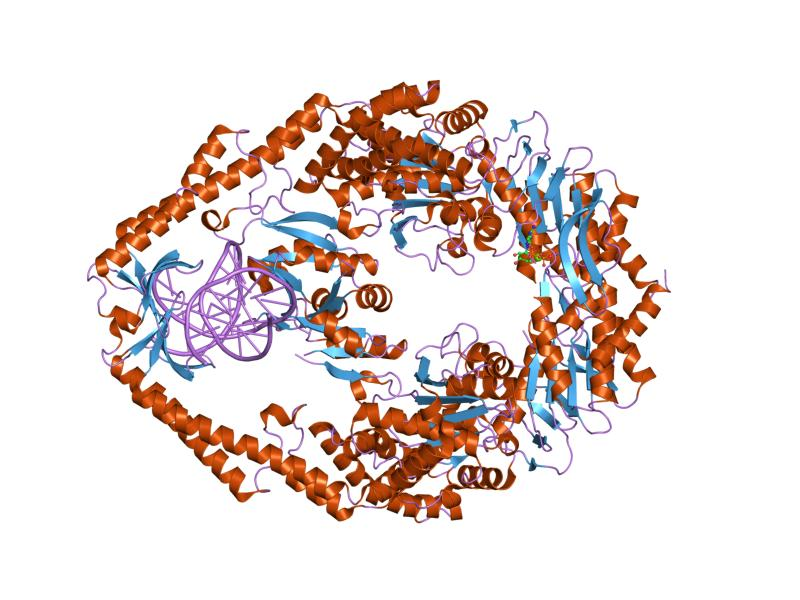 Cartoon representation of the molecular structure of protein registered with 1oh6 code.